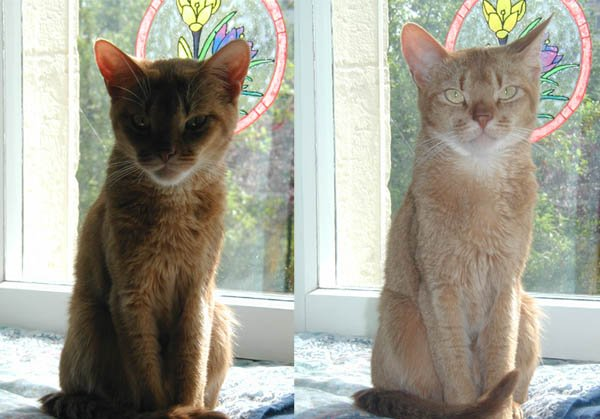 Images with and without fill flash. Modified to remove German text by the original uploader.